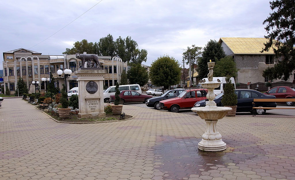 Brad - monument